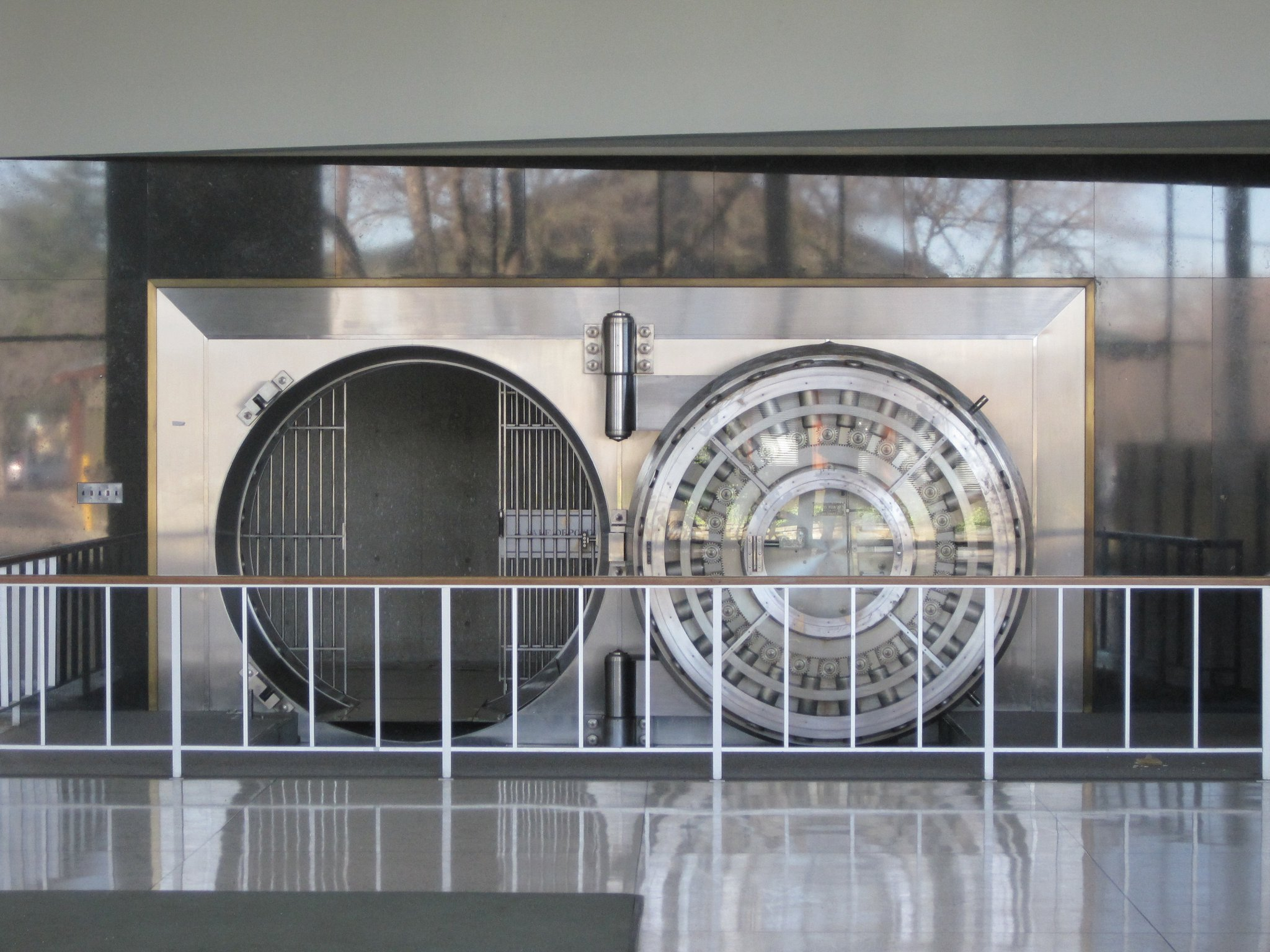 Bank of the West vault in downtown Los Altos, California, demolished in March 2011. On March 14, 2011 the Los Altos Town Crier reported that the vault door was featured in the 1964 James Bond movie "Goldfinger". However, In an unrelated story The Telegraph in the U.K. reported that the movie used the old Midland Bank headquarters in London.